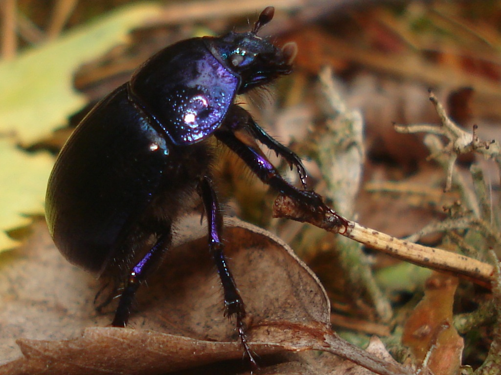 Anoplotrupes stercorosus